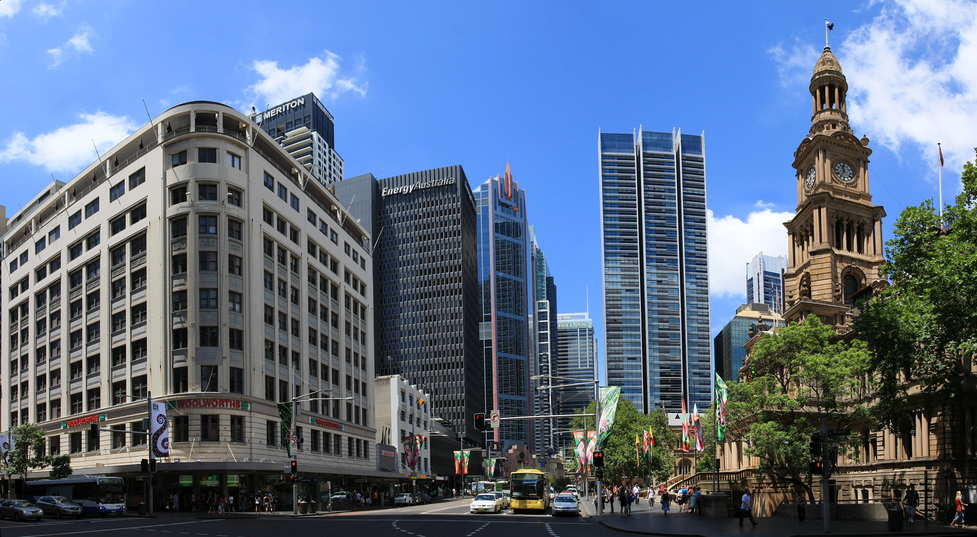 George Street Sydney with the town hall on the right